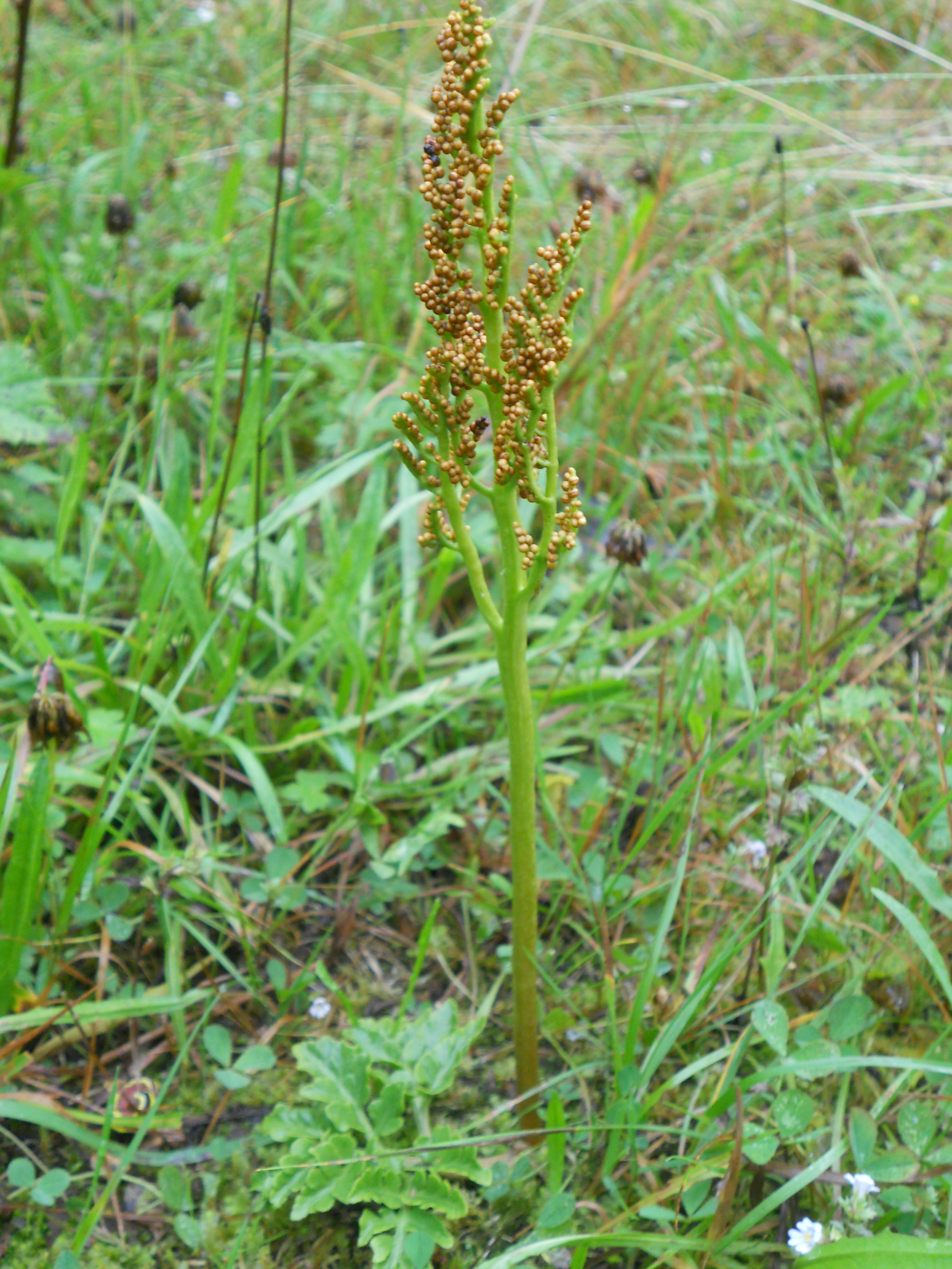 Botrychium multifidum, photo taken in Dalarna, Sweden.